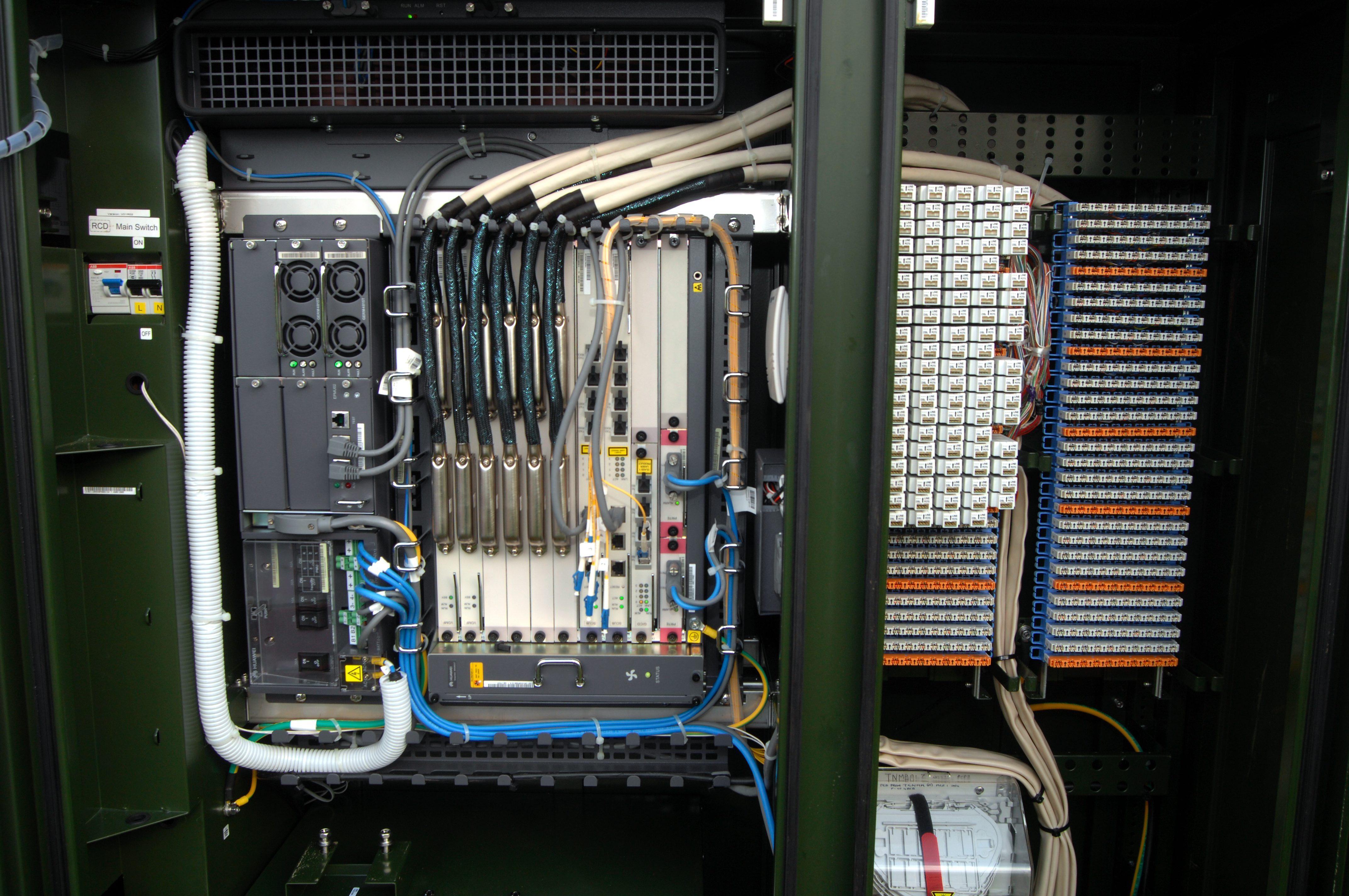 Where fibre meets copper. On the left hand side is the fibre optic equipment - the VDSL or Very-high-bit-rate Digital Subscriber Line, used to carry the broadband signals over the copper lines (on the right-hand side)